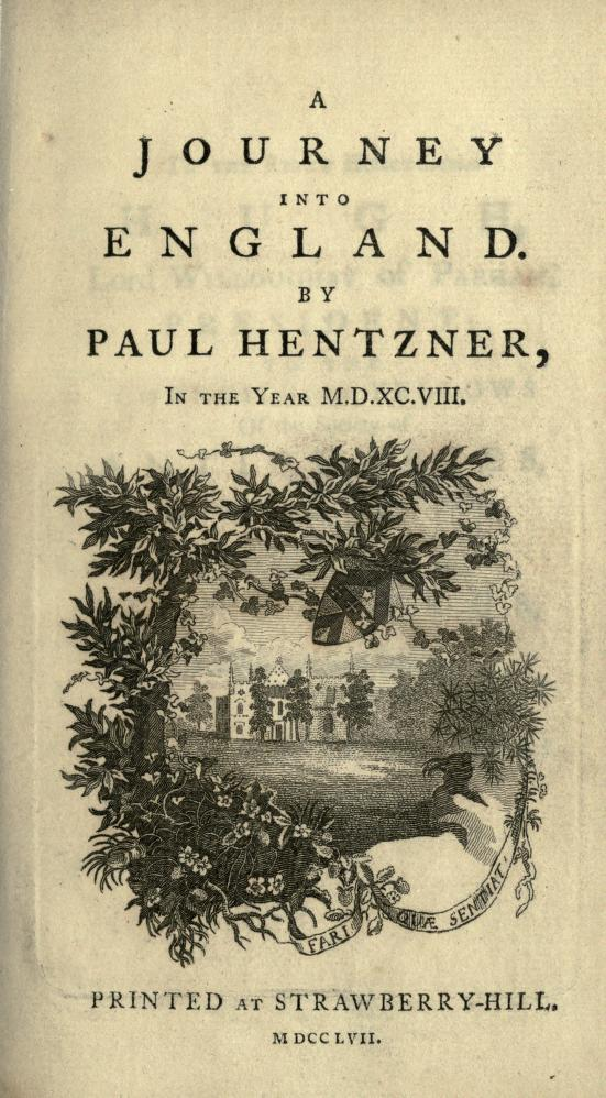 Title page of Hentzner's Journey into England, published by Horace Walpole at the Strawberry Hill Press, 1757